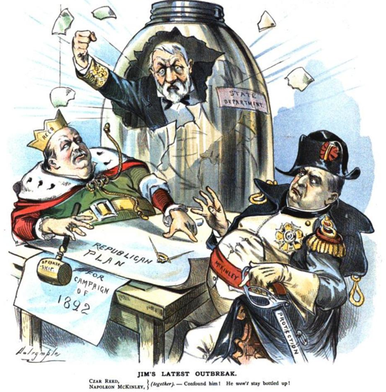 July 30, 1890 Puck front cover, depicting Speaker of the House Thomas B. Reed (wearing a crown) and Ways and Means Chair William McKinley (dressed as Napoleon) annoyed as Secretary of State James G. Blaine breaking out and disrupting their presidential plans